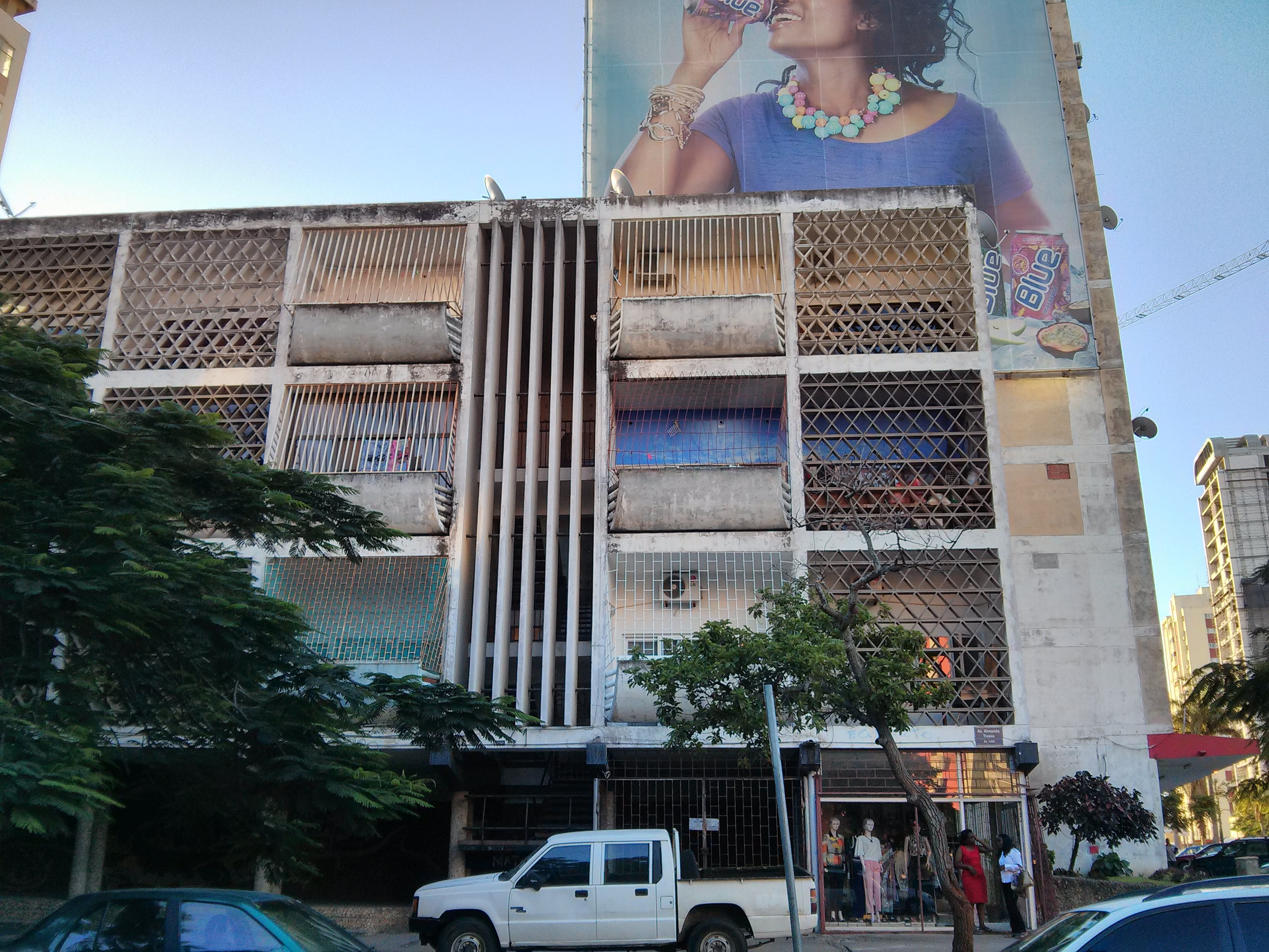 Building "Dragão" em Maputo, Mozambique